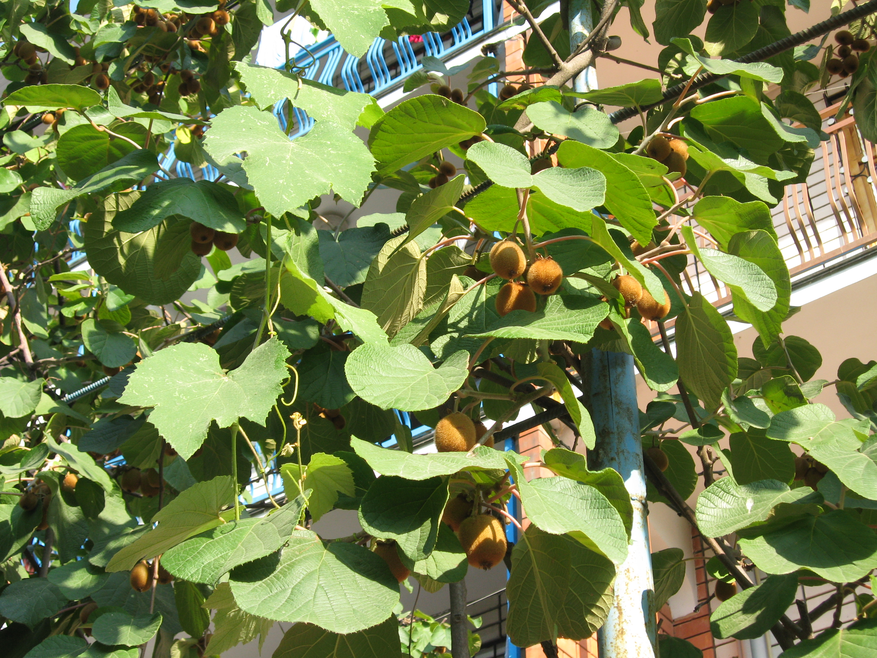 qiwi